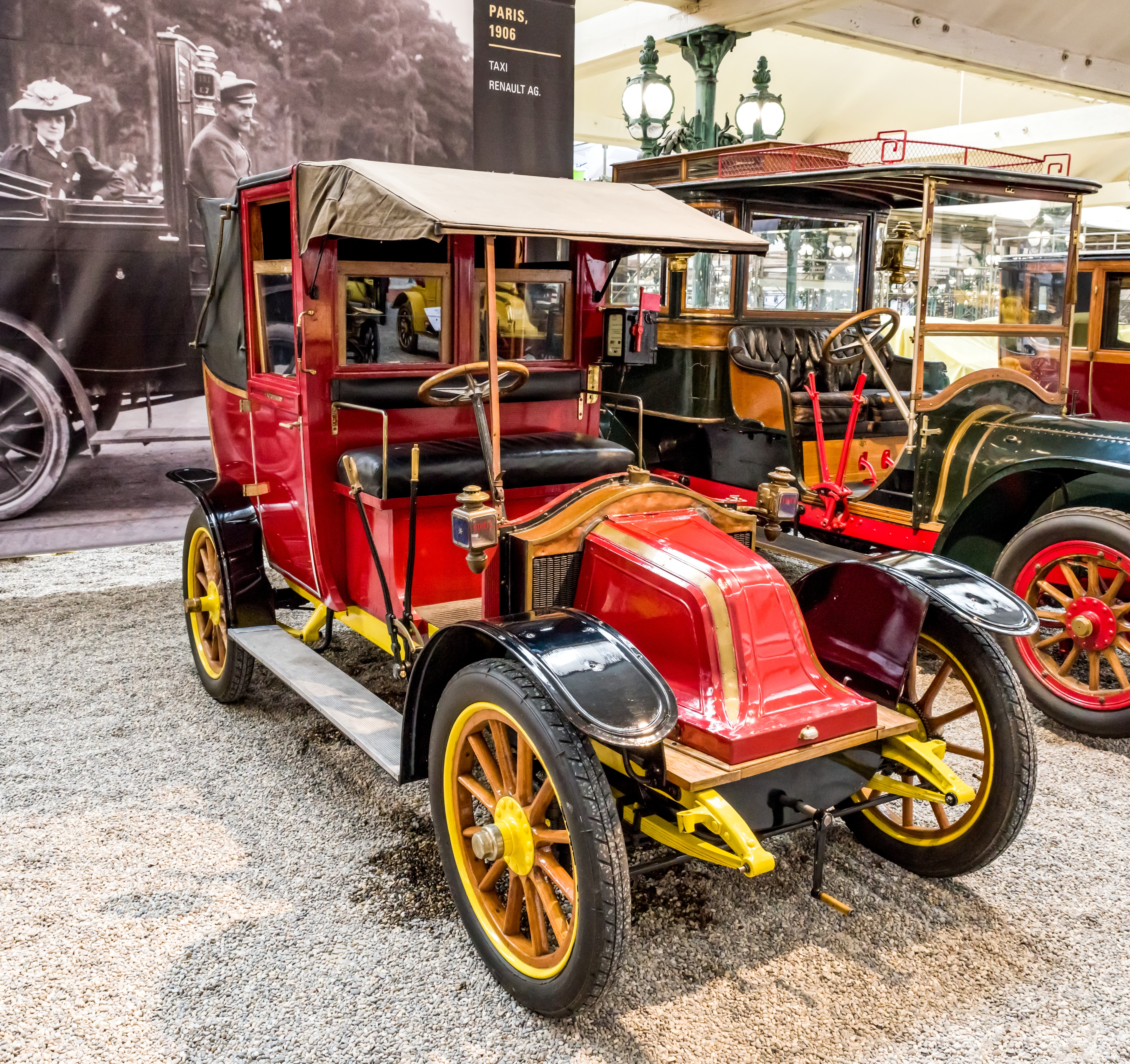 pictures from the Cité de l’Automobile – Musée National – Collection Schlump in Mulhouse, France ptictures from the 10. may 2018